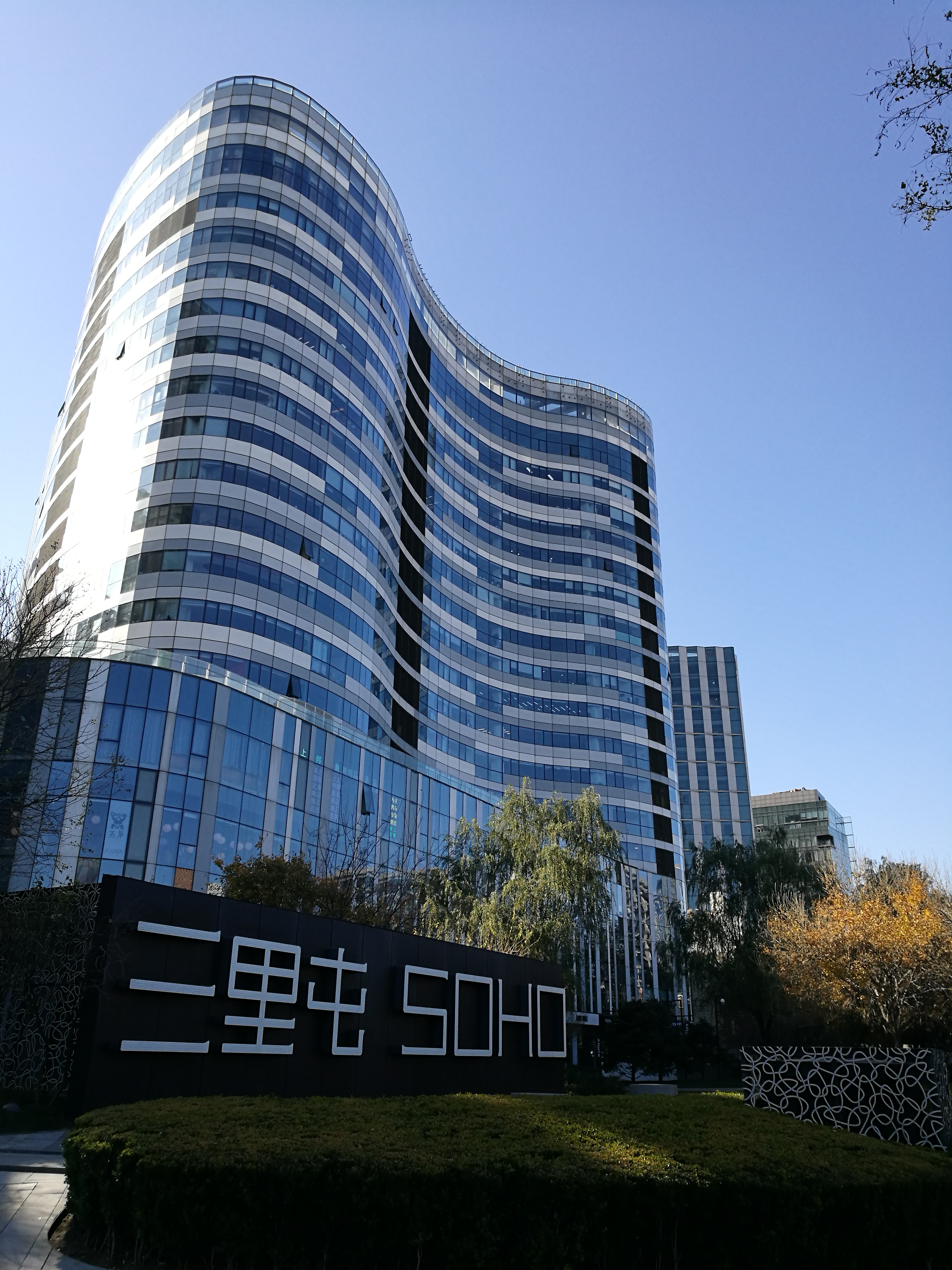 Sign of Sanlitun SOHO